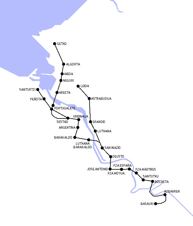 Map of a project made for Bilbao metro in 1976.